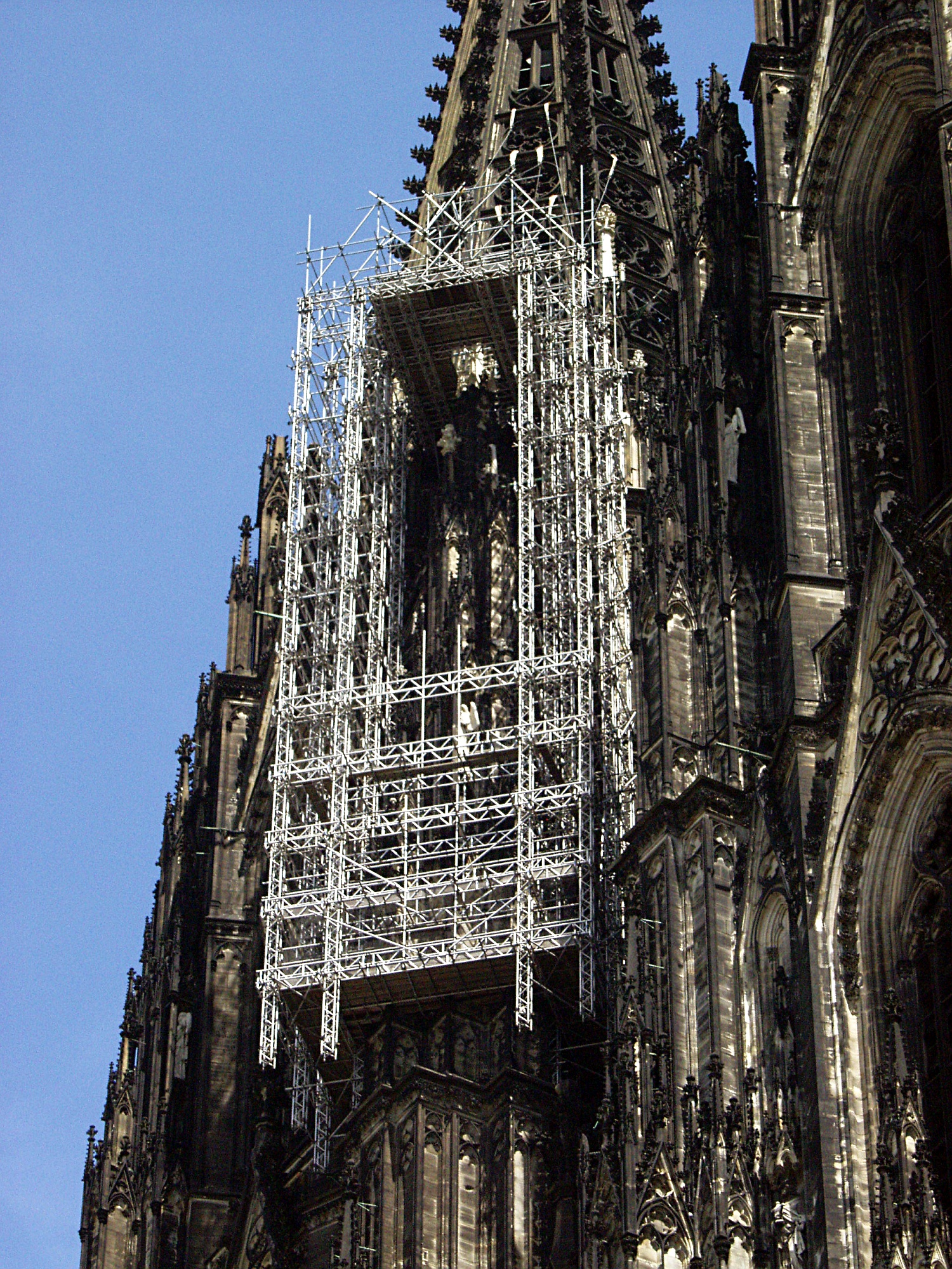 Hanging scaffolding at Cologne Catherdral.